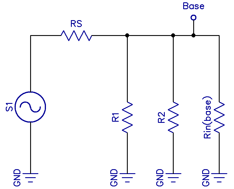 the ac equivalent of the base circuit from a common-emitter amplifier